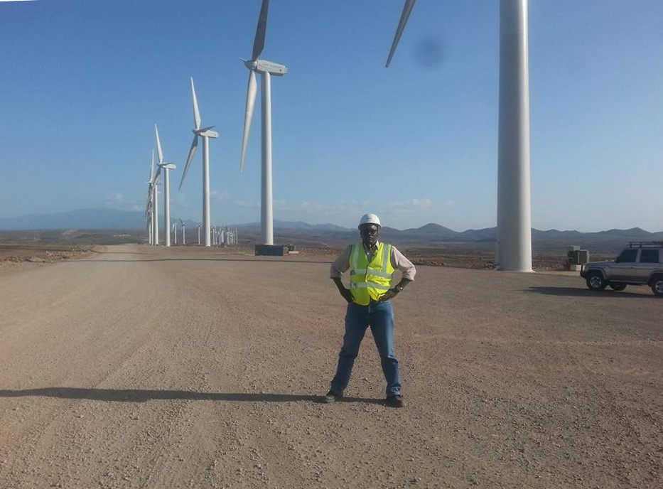 Lake Turkana Windpower Project Site This is an image from Kenya